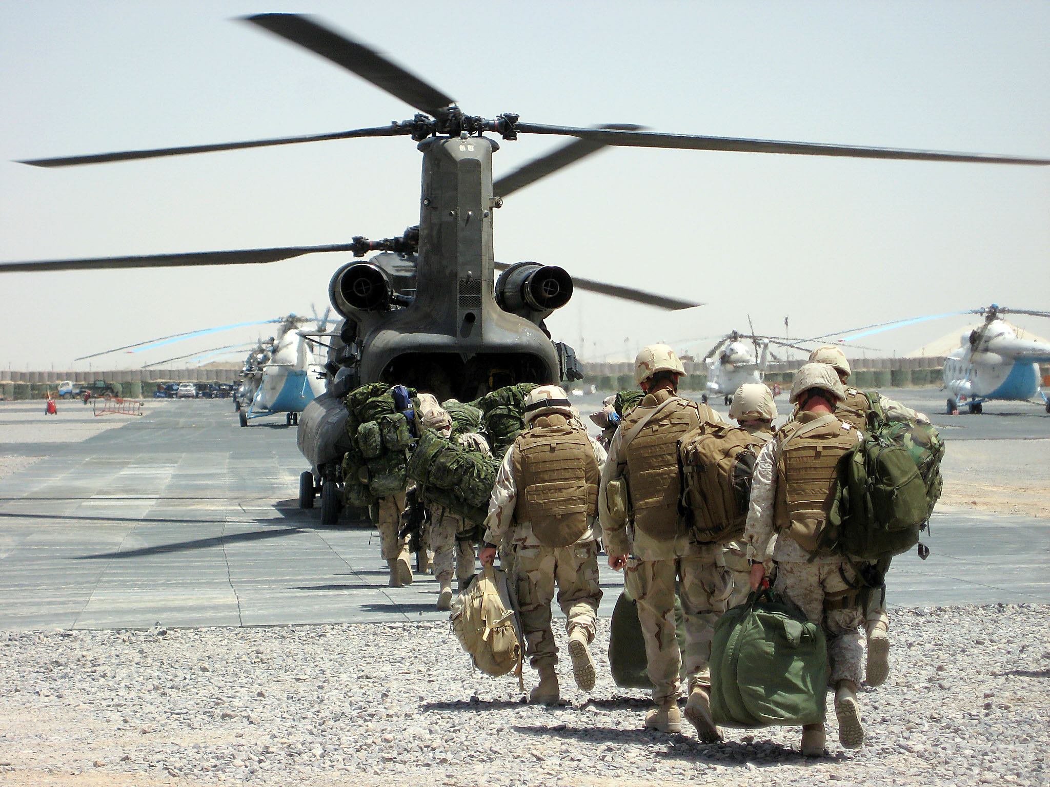 AFGHANISTAN (April 21, 2009) Seabees assigned to Naval Mobile Construction Battalion (NMCB) 11 board a military helicopter for transportation to build Special Forces camps at undisclosed locations in Afghanistan. Members of NMCB-11 are deployed throughout Europe, Southwest Asia, Africa, and the Southern Command area of responsibility supporting operations Enduring and Iraqi Freedom. (U.S. Navy photo by Lt. Richard L. Li/Released)